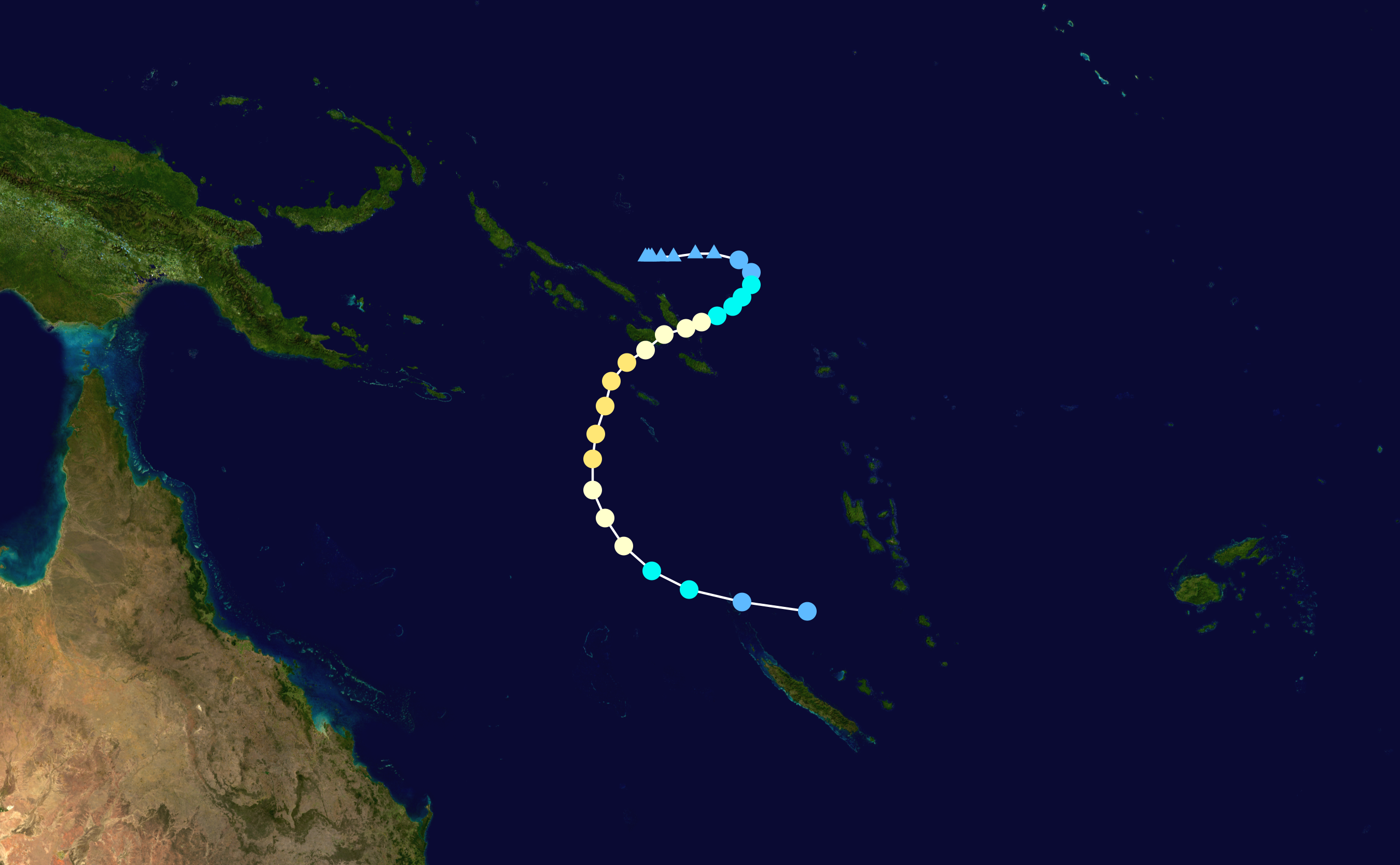 Track map of Tropical Cyclone Namu of the 1985-86 South Pacific cyclone season. The points show the location of the storm at 6-hour intervals. The colour represents the storm's maximum sustained wind speeds as classified in the Saffir–Simpson hurricane wind scale (see below), and the shape of the data points represent the nature of the storm, according to the legend below. Saffir–Simpson hurricane wind scale Tropical depression≤38 mph≤62 km/h Category 3111–129 mph178–208 km/h Tropical storm39–73 mph63–118 km/h Category 4130–156 mph209–251 km/h Category 174–95 mph119–153 km/h Category 5≥157 mph≥252 km/h Category 296–110 mph154–177 km/h Unknown Storm typeTropical cycloneSubtropical cycloneExtratropical cyclone / Remnant low / Tropical disturbance